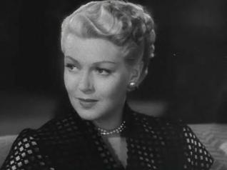 Cropped screenshot of Lana Turner from the trailer for the film A Life of Her Own